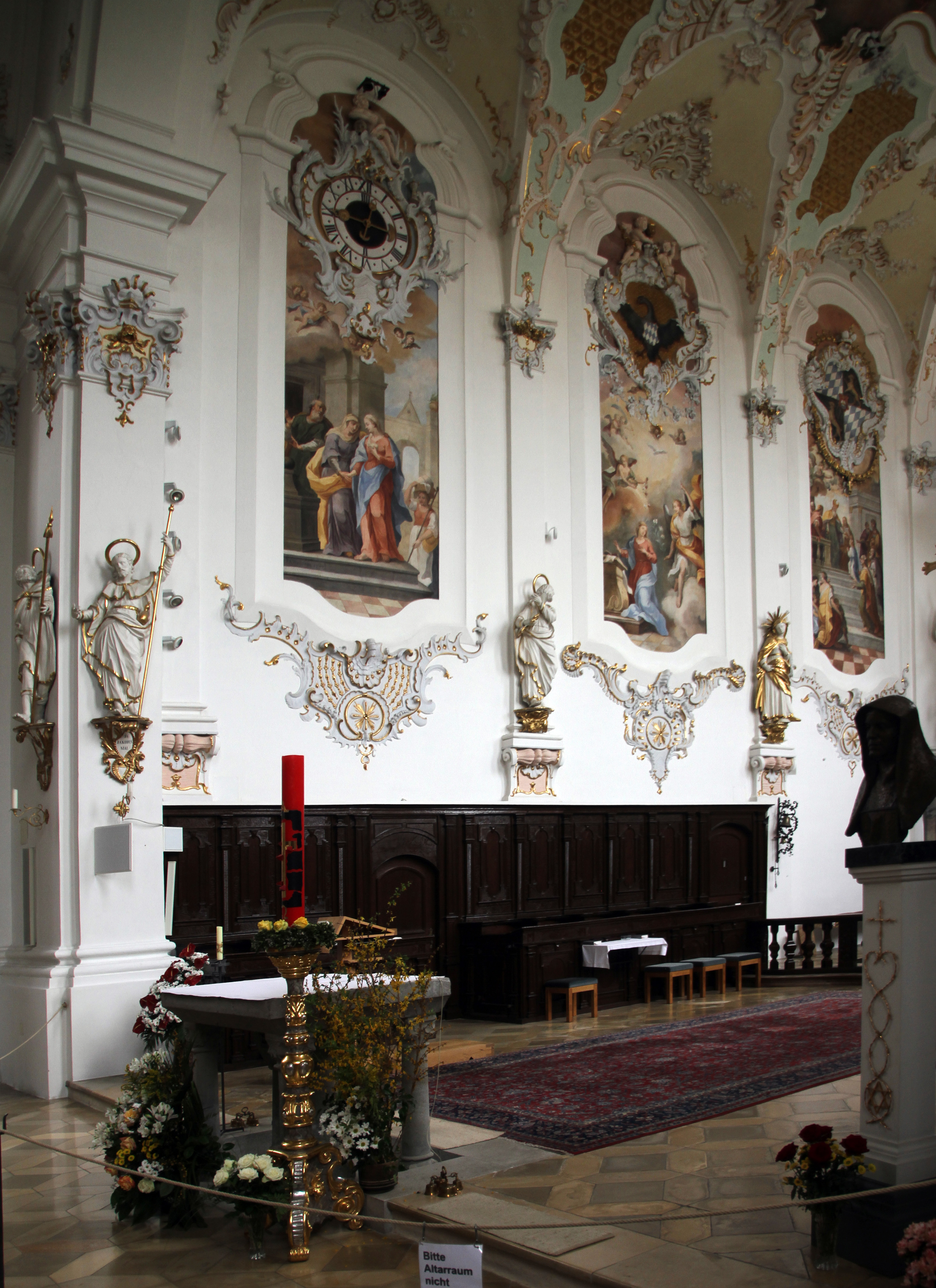 Church of Mariä Himmelfahrt in Schongau near Schongau, interior decoration.